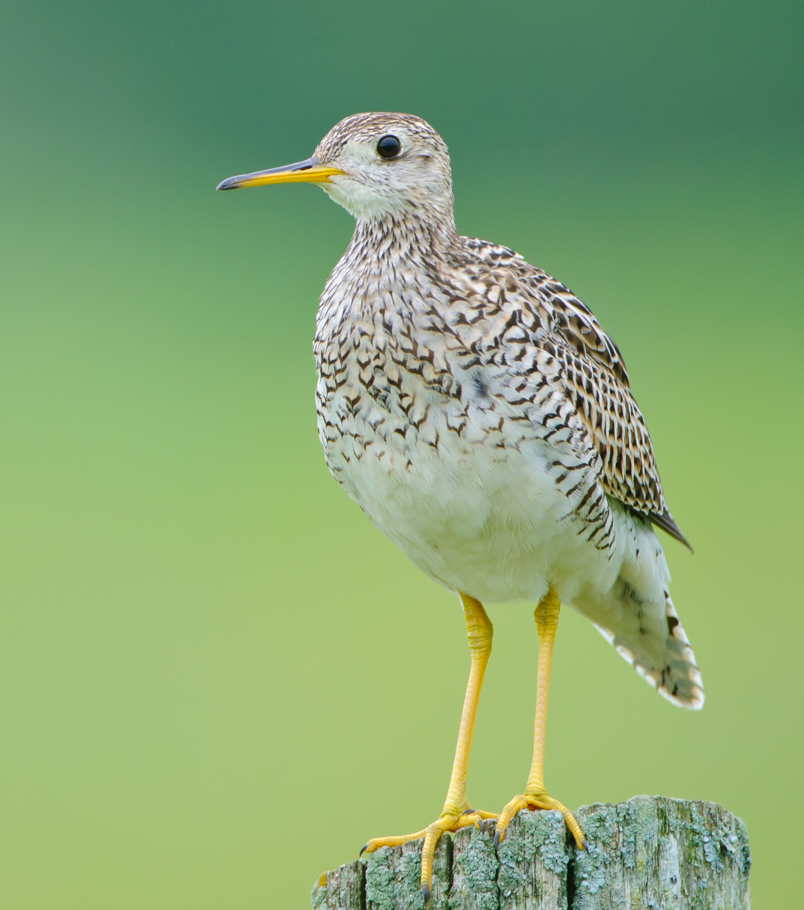 An Upland Sandpiper (Bartramia longicauda) perched on a fence post in the Carden Alvar region, near Kirkfield, Ontario, Canada.